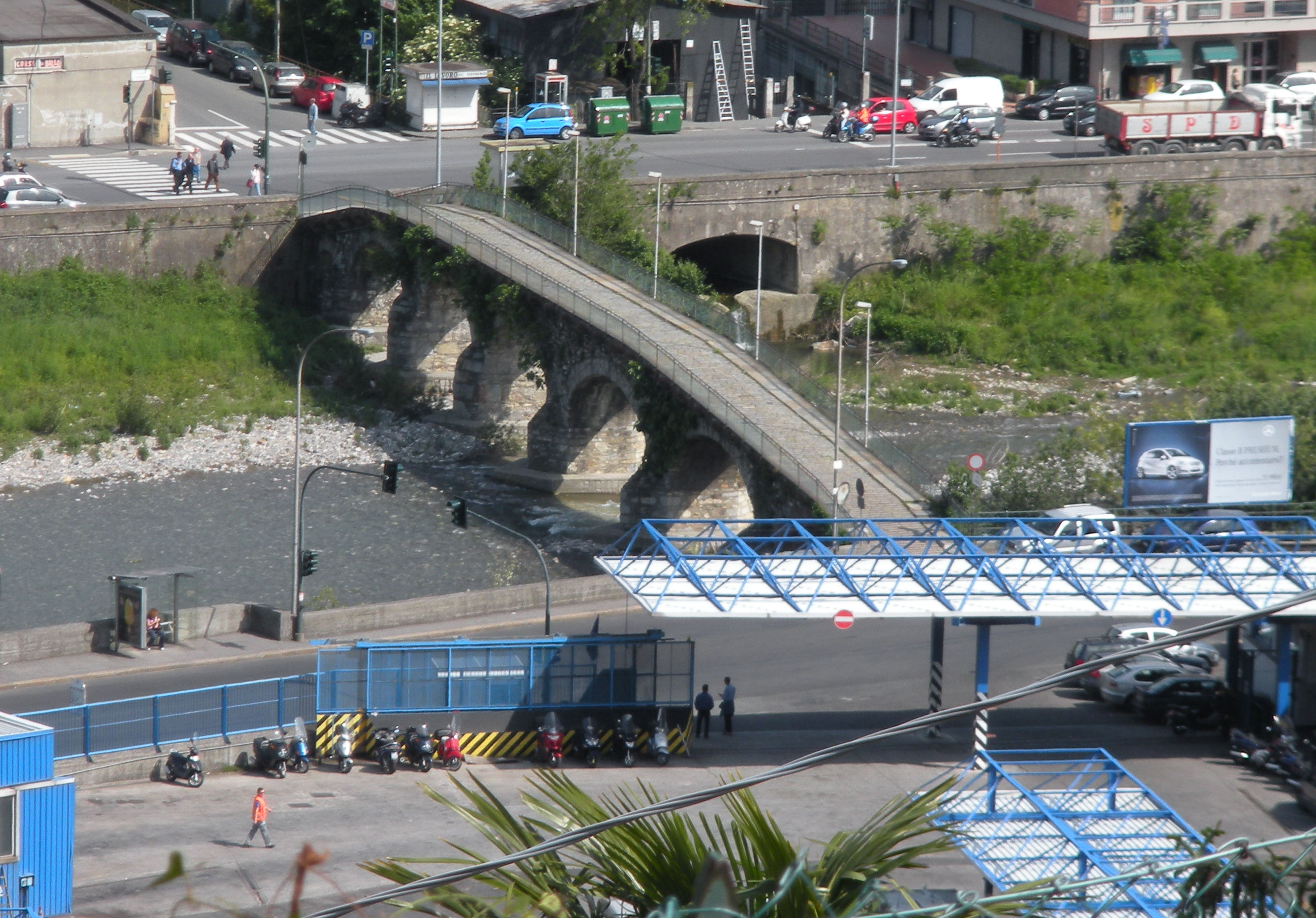 Genoa (Italy), quarter of Staglieno, “Carrega” Bridge